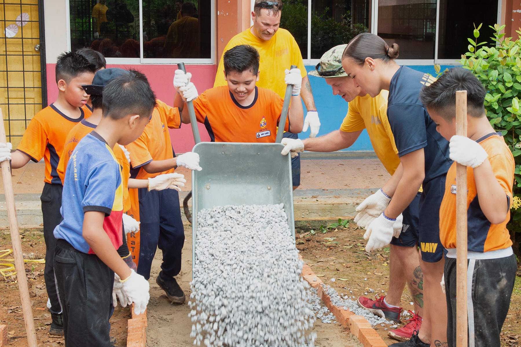 Navy personnel help students bring in sand, rocks and bricks to create a walkway during a courtyard renovation at an elementary school in Kuching, Malaysia, April 8, 2019, during Pacific Partnership, the largest annual multinational humanitarian assistance and disaster relief preparedness mission conducted in the Indo-Pacific.